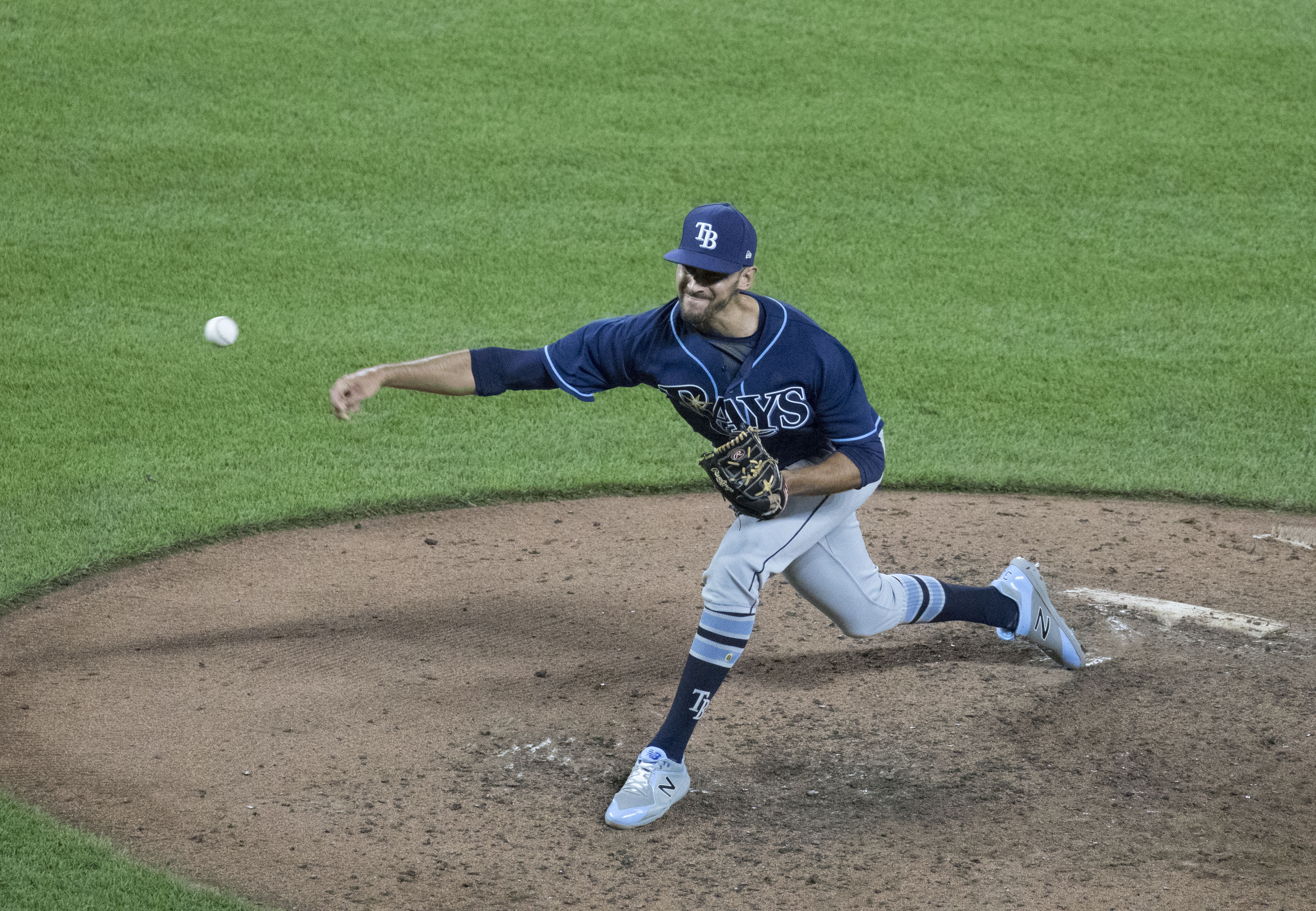 Rays at Orioles 9/21/17